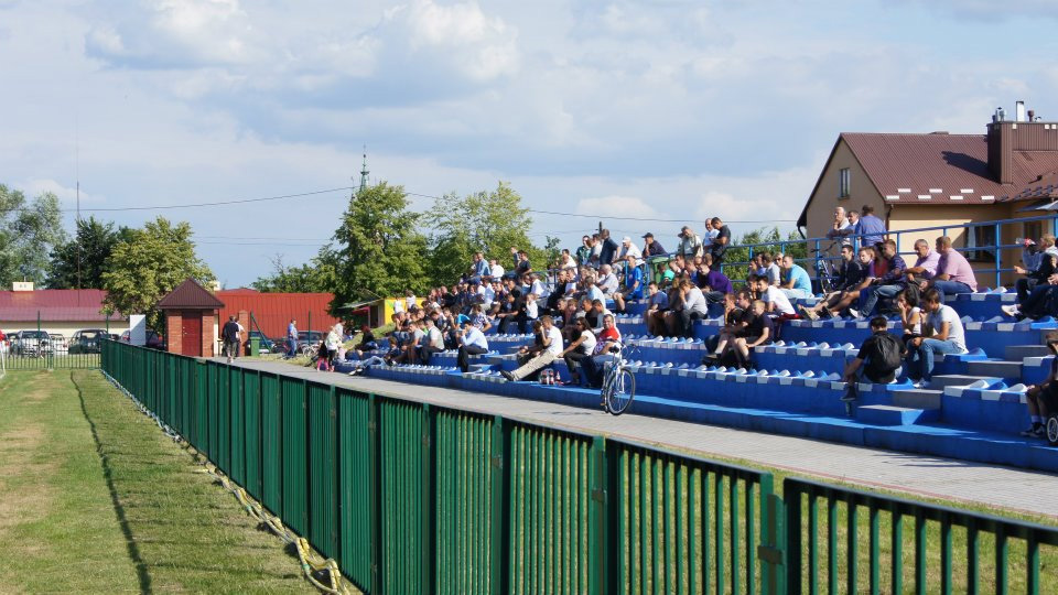 Stadion w Sokołowie Małopolskim podczas meczu o Puchar Burmistrza.